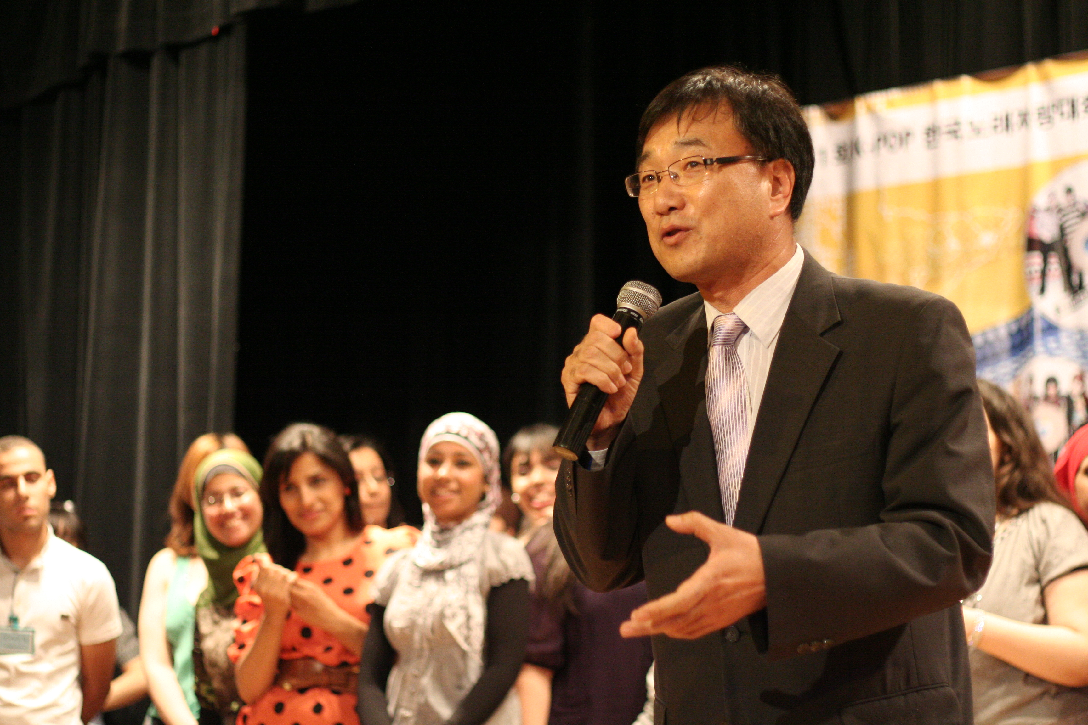 K-pop Festival held in Egypt, 2011